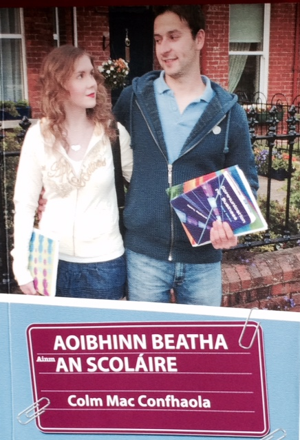 le Colm Mac Confhaola. Clúdach an leabhair